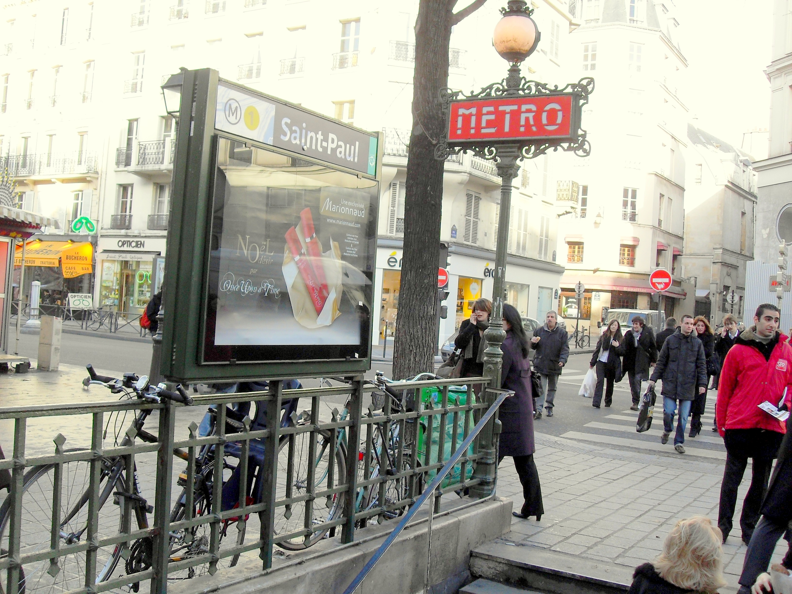 Saint-Paul (Paris Métro).